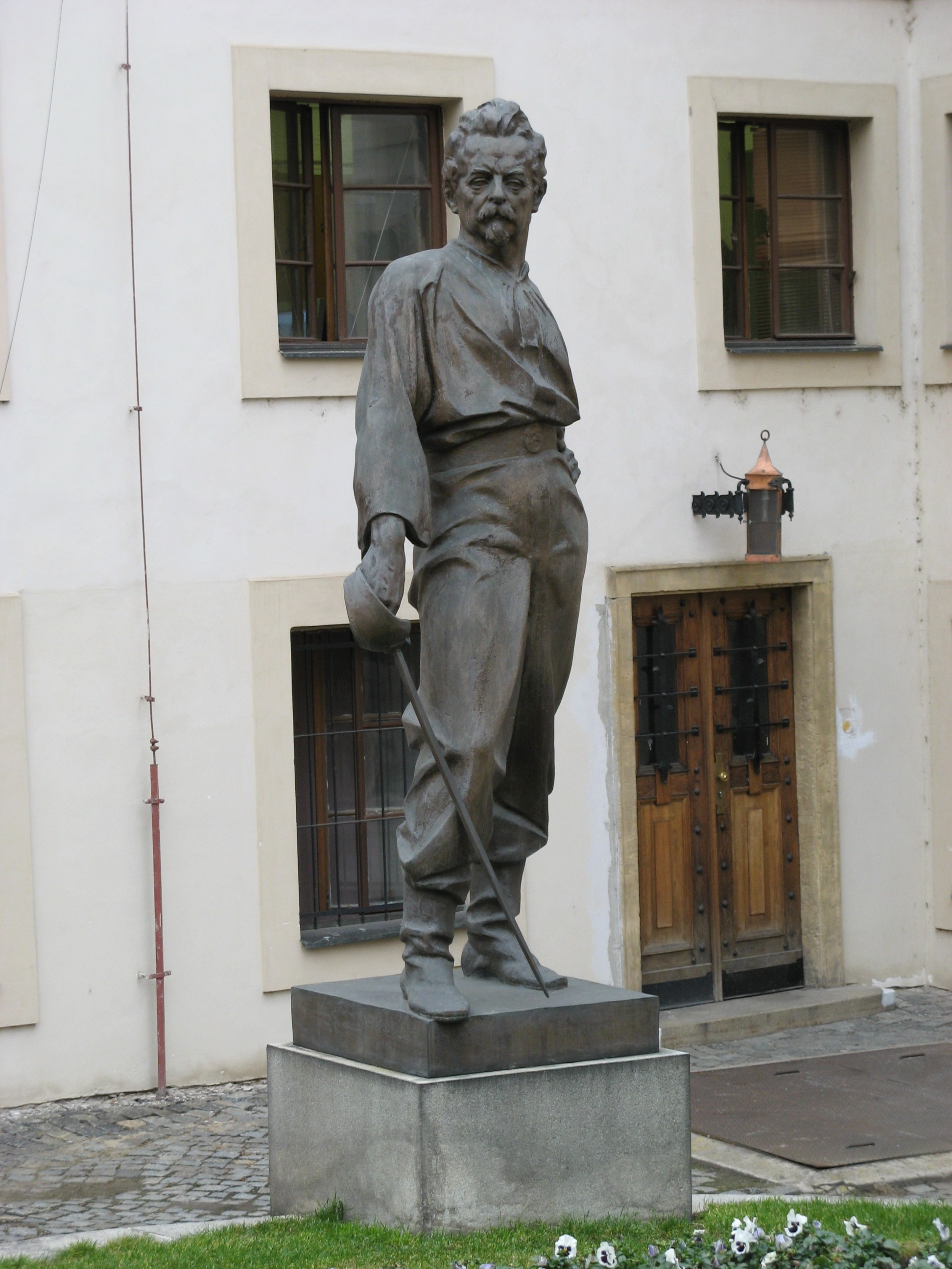 Miroslav Tyrš - co-founder of the Czech Sokol. The statue was made by Ladislav Šaloun.